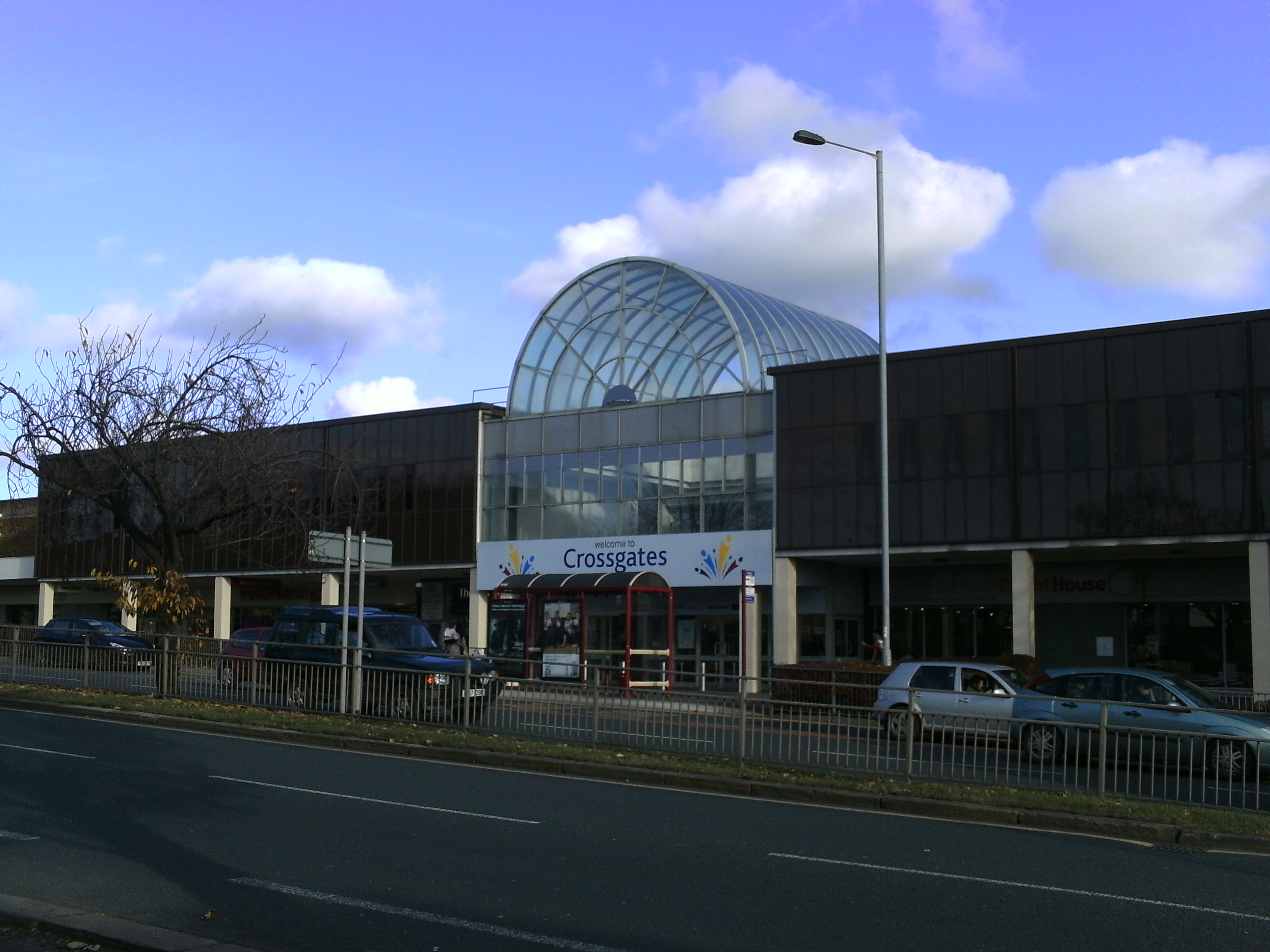 Cross Gates Centre, entrance from Station Road